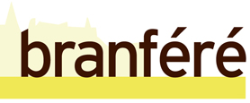 logo-branfere